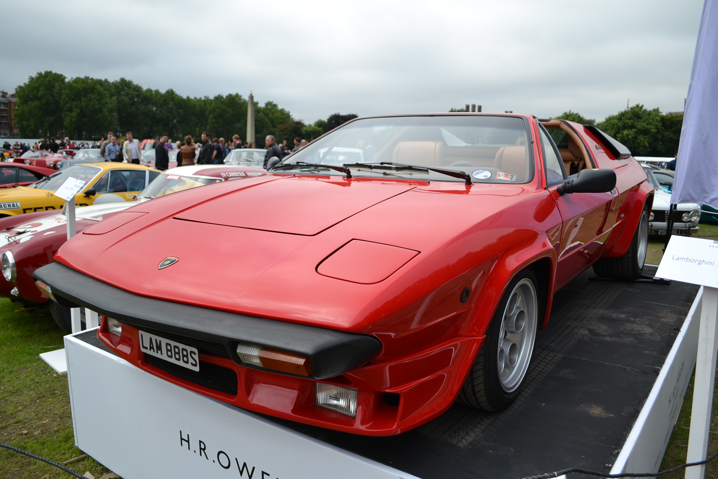 Chelsea Auto Legends 2012